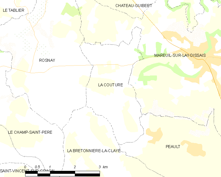 Map of French municipality La Couture